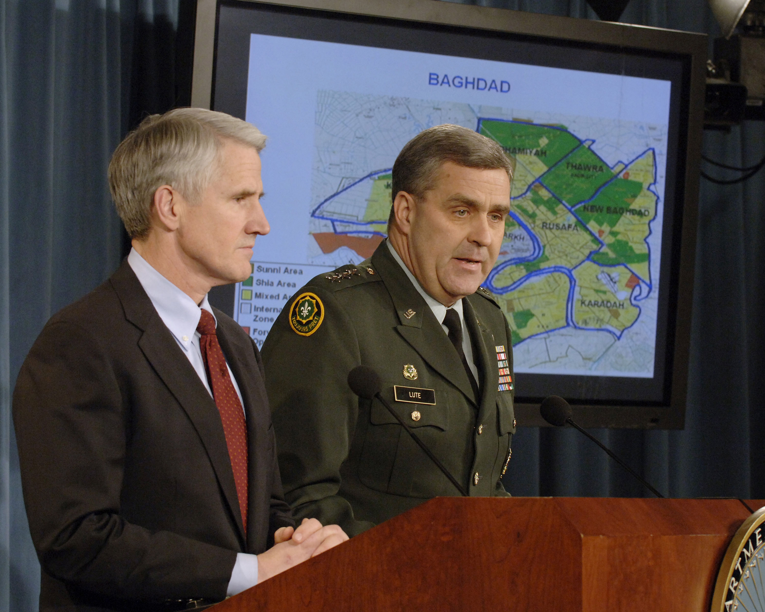 U.S. Army Lt.Gen. Douglas E. Lute, director for operations, the Joint Staff, and Deputy Assistant Secretary of Defense for Middle East Mark Kimmitt conduct a Pentagon operational update briefing.